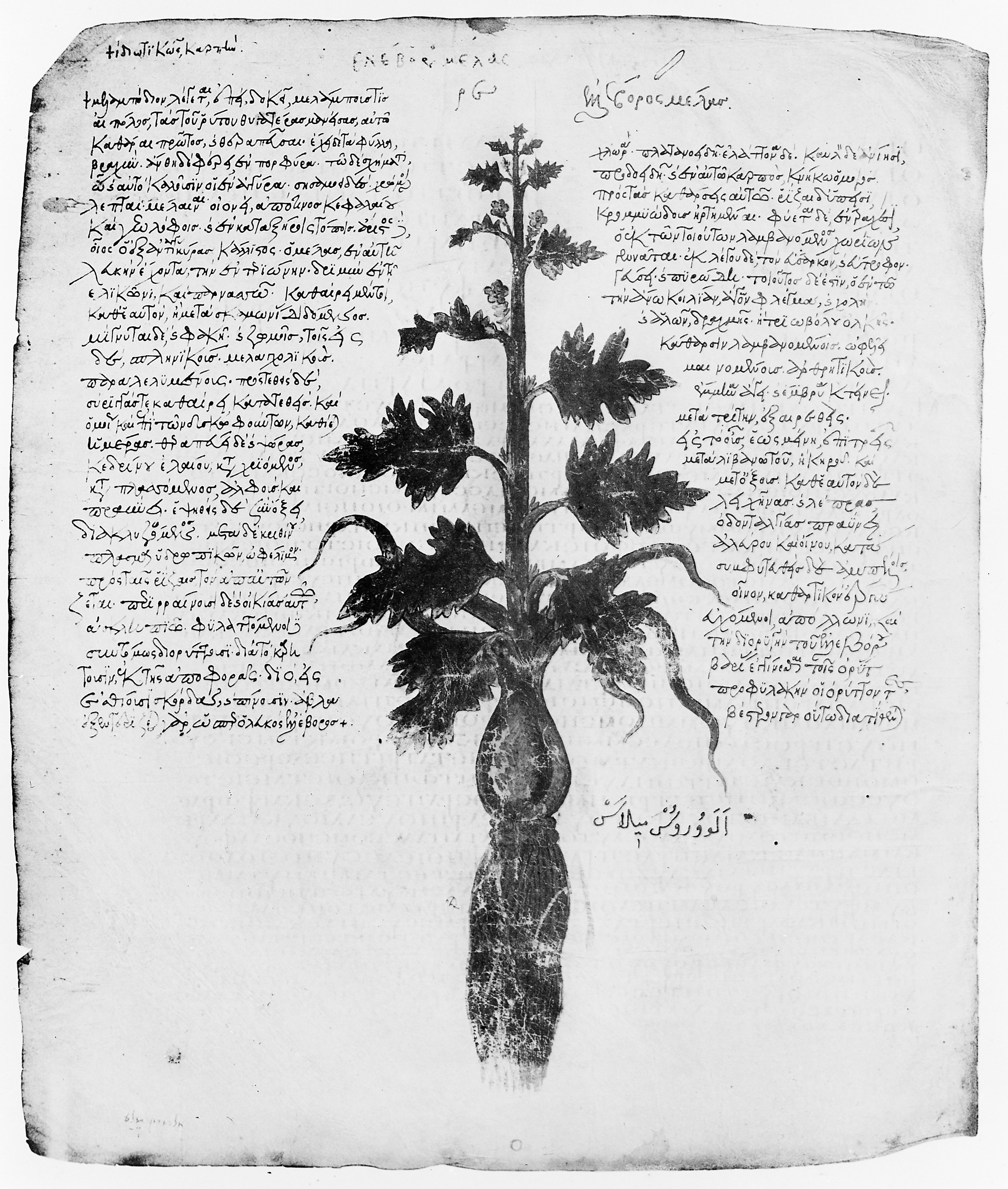 Black Hellebore. Heleborus Niger General Collections Keywords: Botany; Pedanius Dioscorides